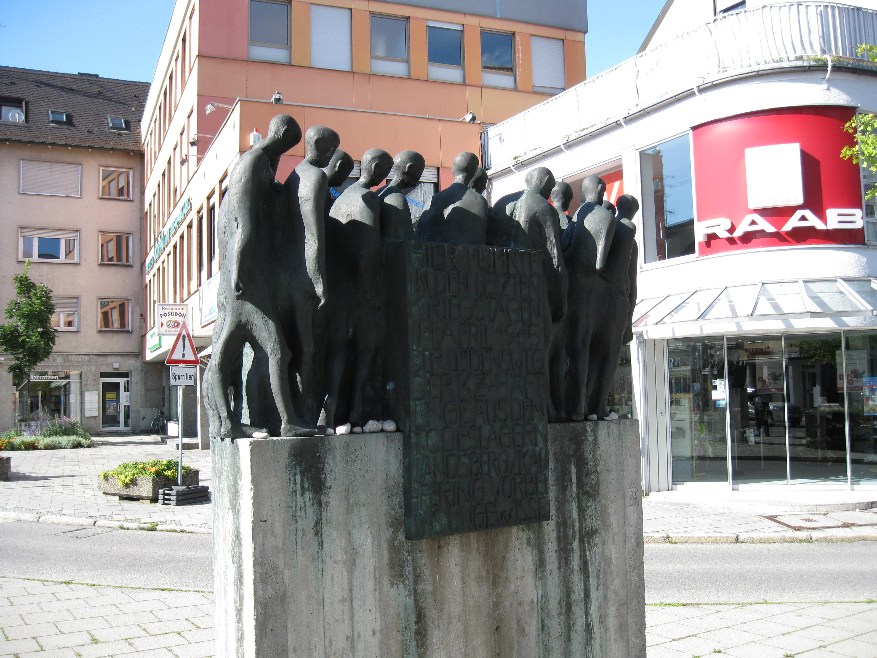 Memorial for the victims of the evacuation of concentration camps only weeks before the end of World War Two. Memorial in Fürstenfeldbruck between Hauptstraße und Dachauer Straße. Artist: Hubertus von Pilgrim.